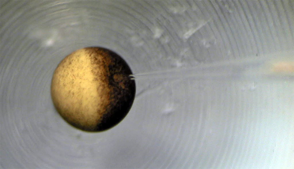 Measuring the membrane potential of an Xenopus laevis oocyte.